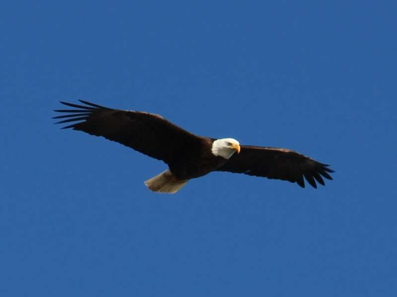 American bald eagle (Haliaeetus leucocephalus) in Yellowstone National Park (cropped).